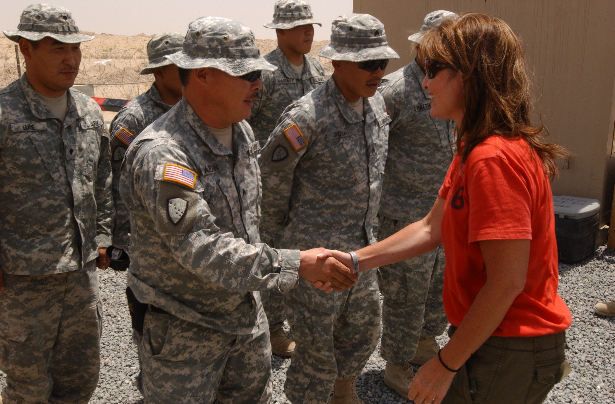 Camp Virginia, Kuwait - Gov. Sarah Palin, of Alaska, shakes hands with members of Company B, 3rd Battalion, 297th Infantry Regiment, Alaska National Guard, during her visit to Camp Virginia, Kuwait, July 25. The governor concluded her two-day trip with a tour and lunch at the camp as well as a tour of the Life Support Area-Kuwait Rapid Fielding Initiative facility.